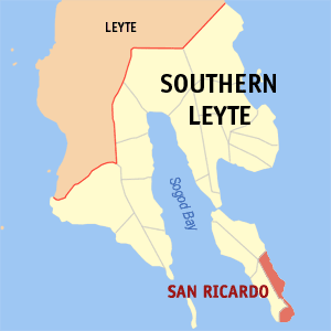 Map of Southern Leyte showing the location of San Ricardo